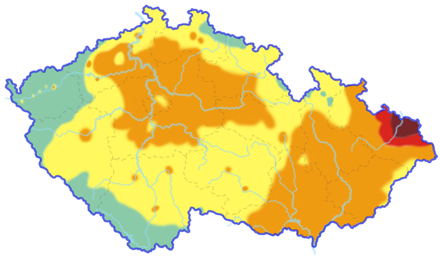 Annual average concentration of particulate matter PM2.5 in Czech Republic in 2011